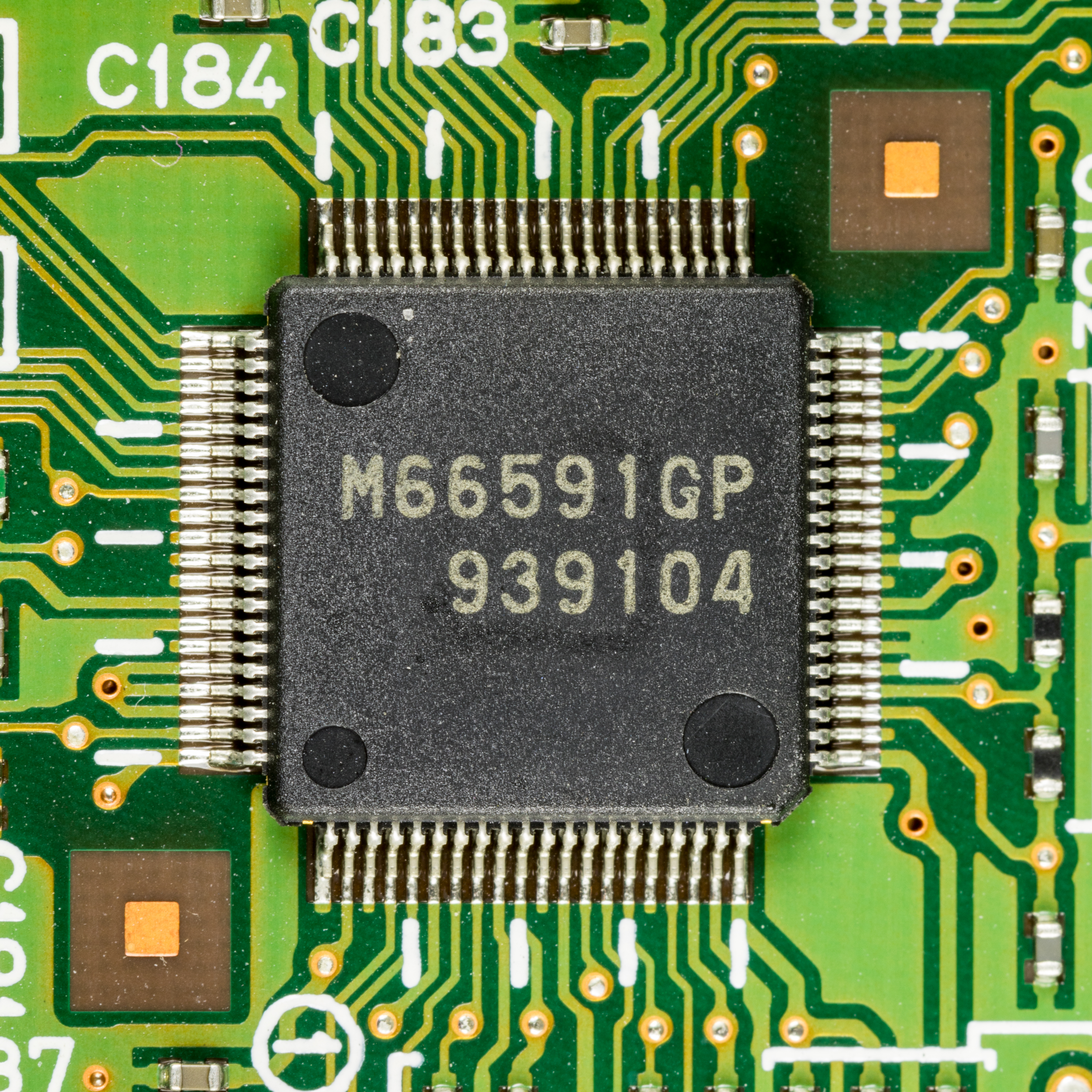 Kyocera FS-C5200DN - interface board - Renesas M66591GP - ASSP (USB2.0 Peripheral Controller). Package: 80pin LQFP